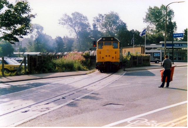 Red Flag man The open level crossing on Strand Road, Preston in 1989 with an oil train leaving Preston Docks. Two men with red flags stopped the traffic on what was then the main A59 route (before the Penwortham bridge was built). The placing of the signal just to the left of the locomotive is bizarre.